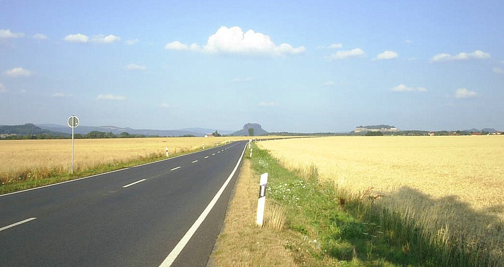 road Bundesstraße 172 southeastern Pirna-Krietzschwitz, Saxony, with view to Lilienstein and Königstein in the summer